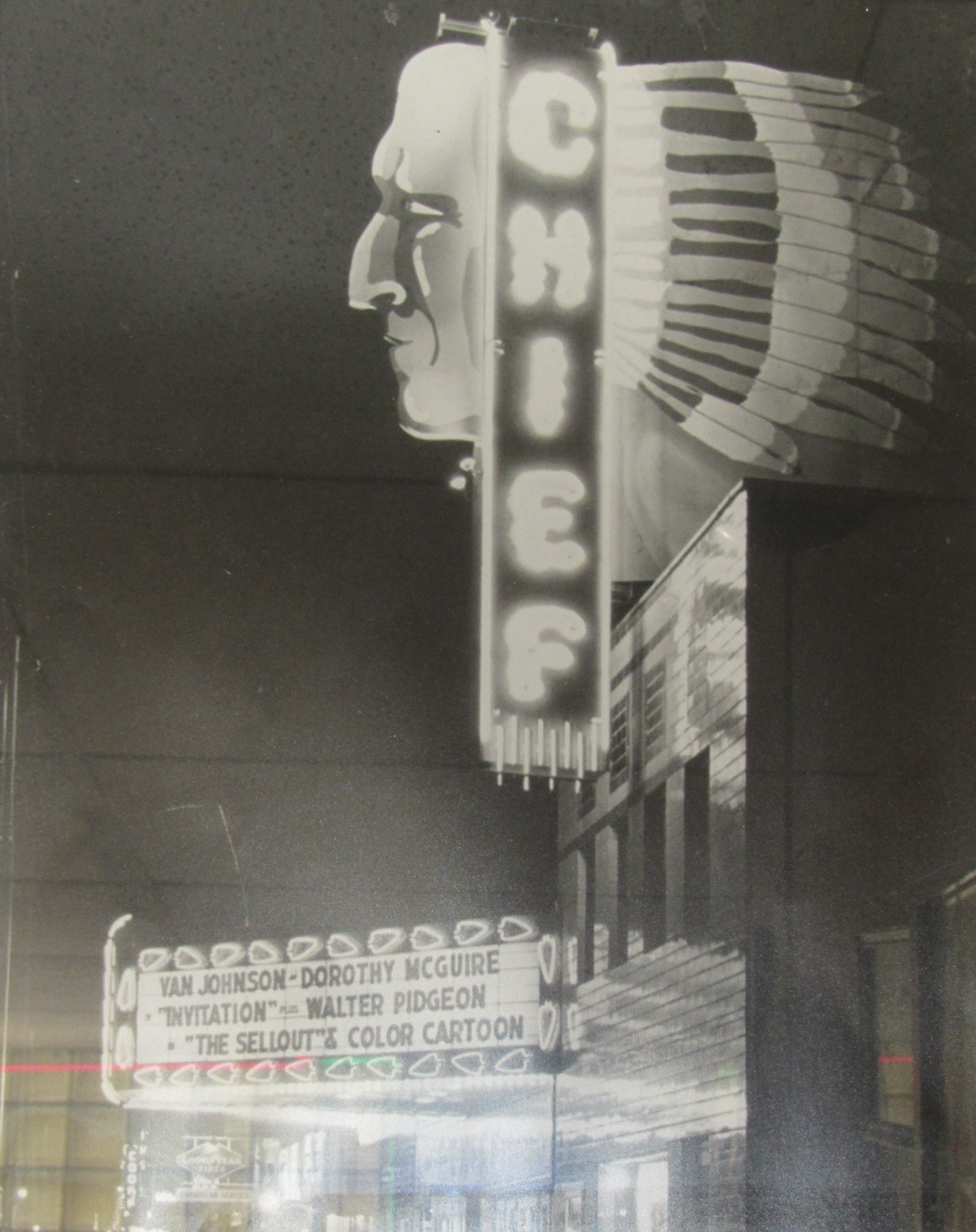 Photo of the former Chief Theater, Omaha, Nebraska. The theater has been demolished.